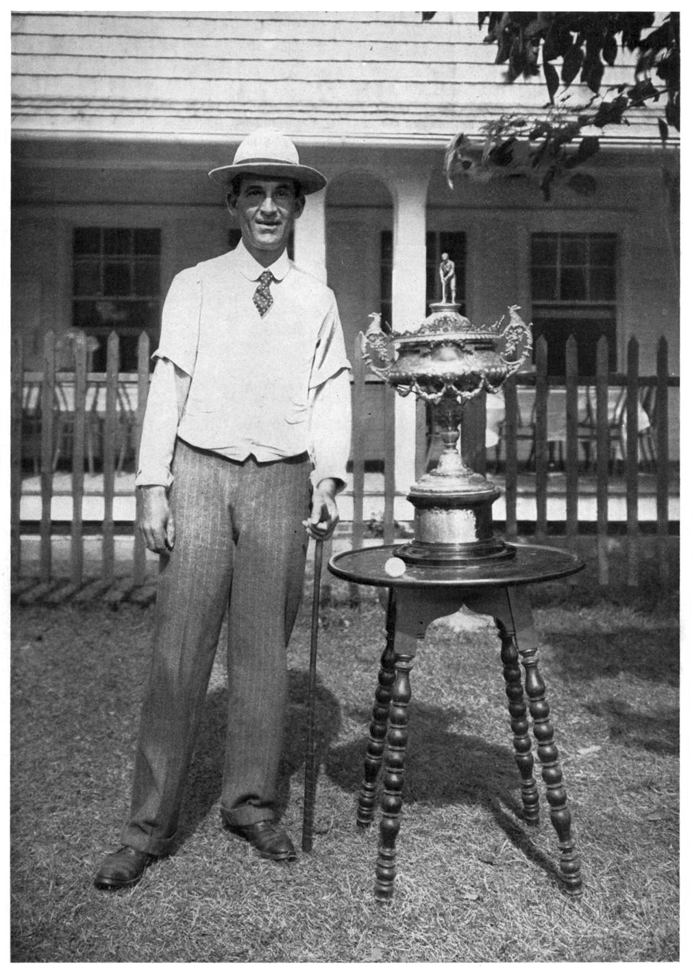 Walter Travis in 1901 after winning his second U.S. Amateur Championship, with the original Havemeyer Trophy (which was destroyed by fire in 1925). He won with a Haskell rubber-cored golf ball (sitting on the table), which was a new innovation at the time that quickly replaced the older gutta-percha ball. The final round had been postponed a week because of the death of President William McKinley. The original caption read: "From a hitherto unpublished photograph taken just after his second win of the Amateur Championship at the Country Club of Atlantic City, in 1901. The ball on the table is the first rubber-core to win a major event."